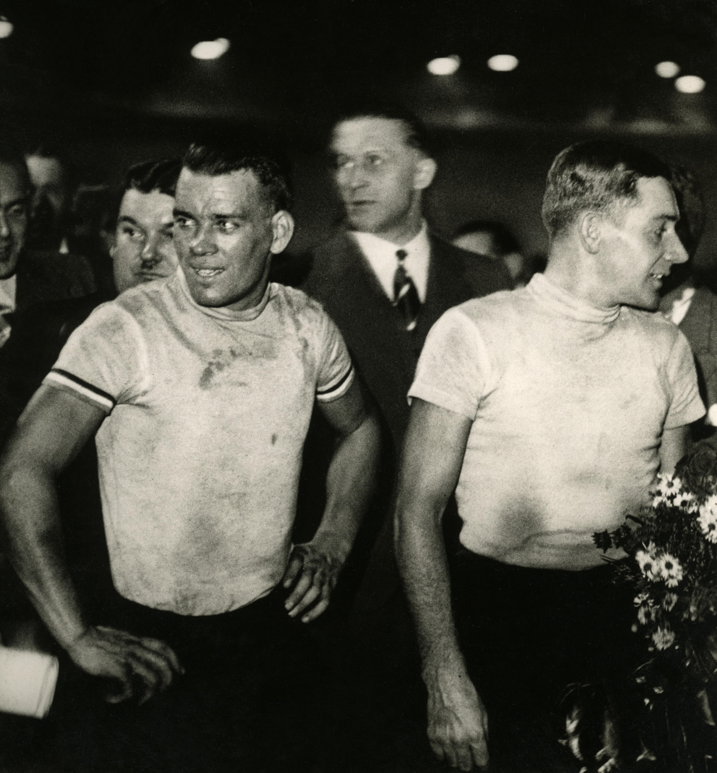 Dutch racing cyclist Pellenaers (to the left) with Schön. Together they won the Paris six-day race. Paris, October 13, 1936.